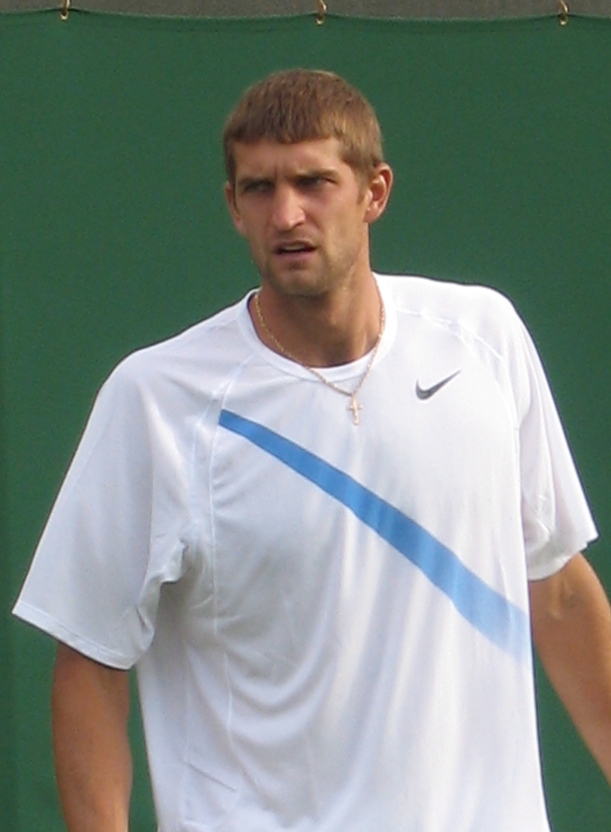 Max Mirnyi at Wimbledon 2007